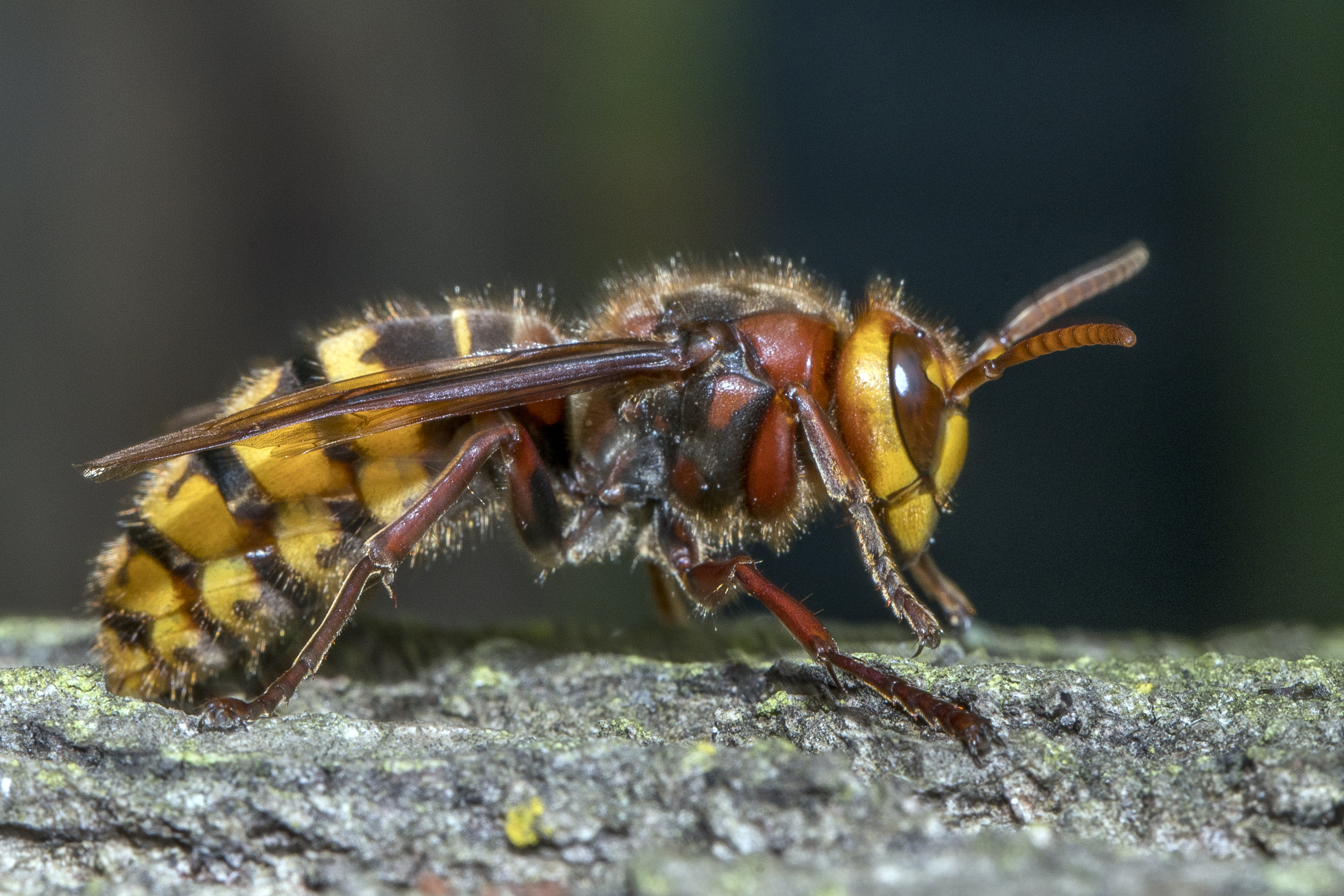 Vespa crabro The European hornet, Lodz (Poland)